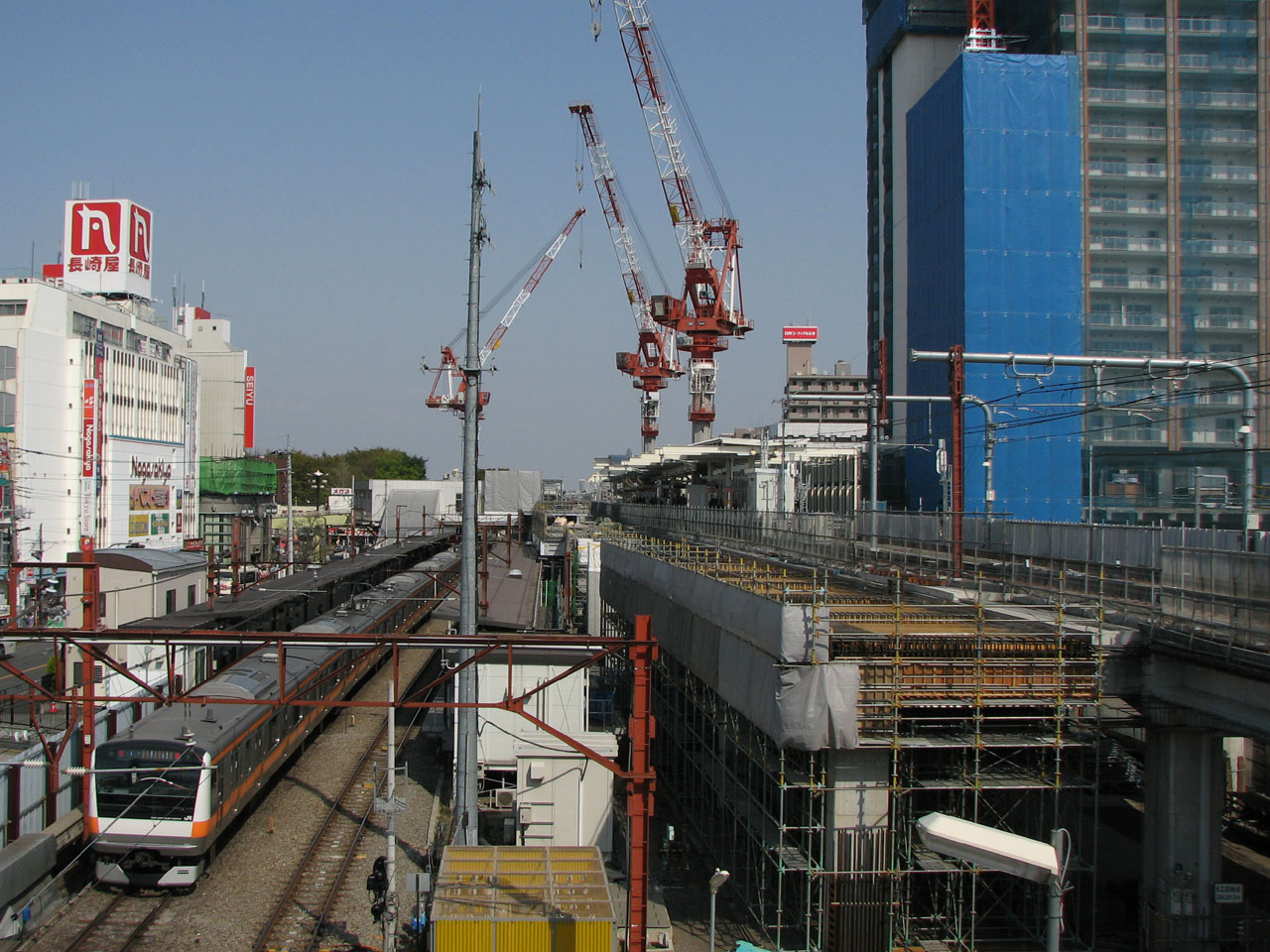 Platform Elevation of Musashi-Koganei Station